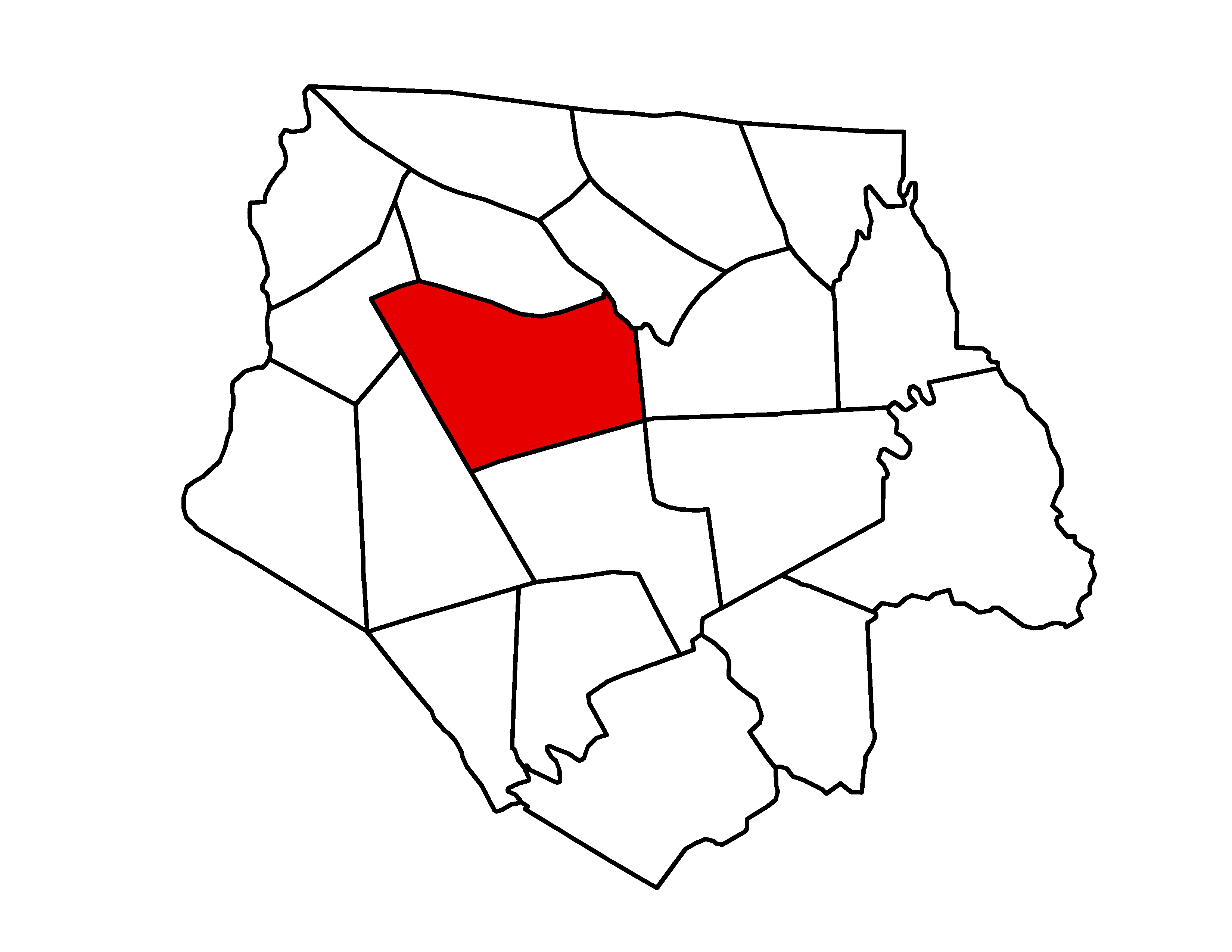 Map highlighting Clifton Township in Ashe County, N.C.